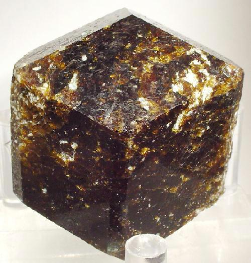 Dravite Locality: Soklich Open Cut, Yinnietharra Station, Pilbara Region, Western Australia, Australia (Locality at ) A pristine, very sharp and lustrous, brown dravite crystal from the classic Australian locality of Yinnietharra. These are generally considered to be the worlds best dravites. Ex Ed Ruggiero Collection, who purchased this piece at the 1975 Tucson Show. 4.8 x 4.8 x 3.7 cm